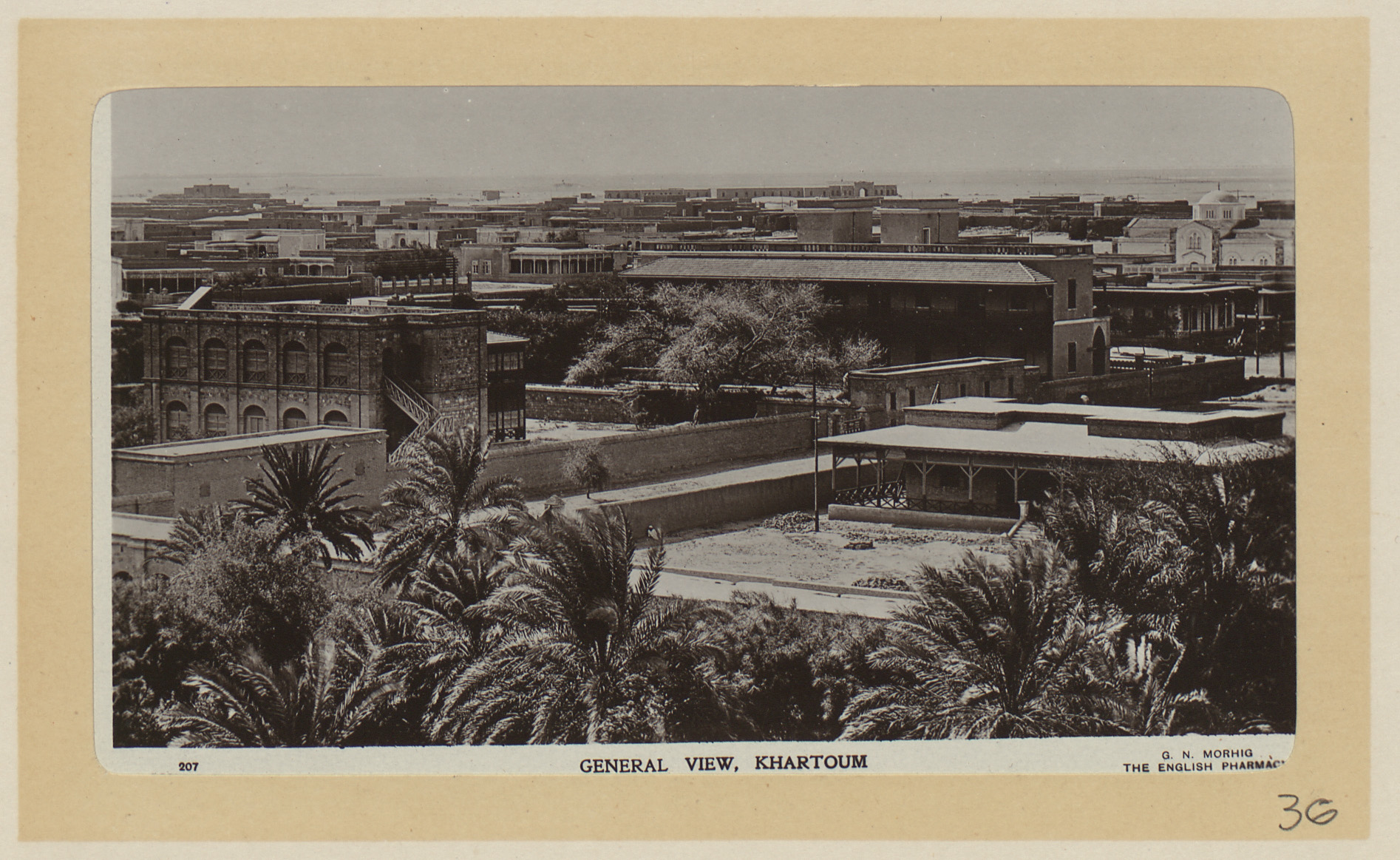 General view of Khartoum, showing the Greek Church in the background on the far right (G.N. Morhig postcard 207)